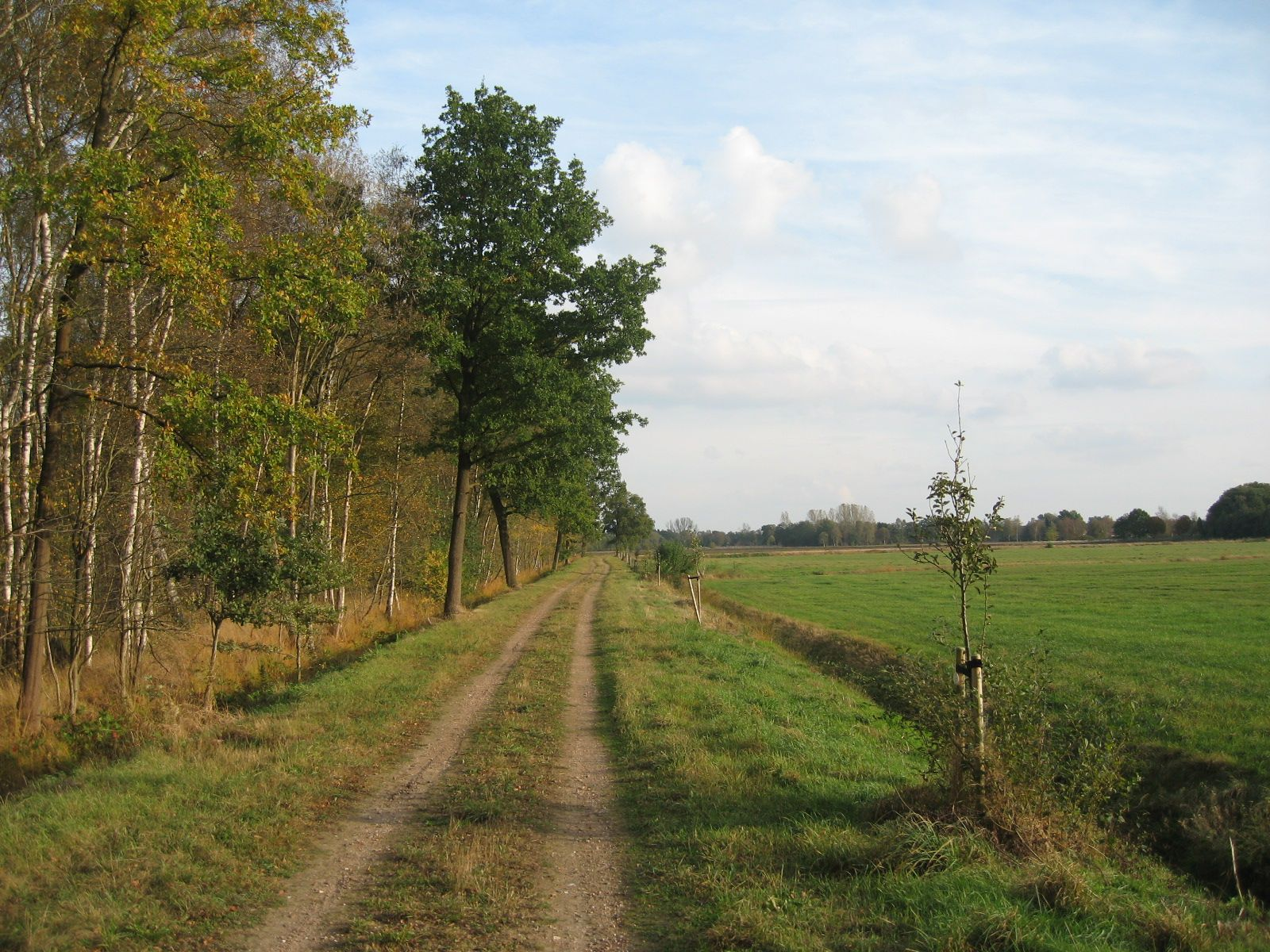 Typical agricultural road at Königsmoor